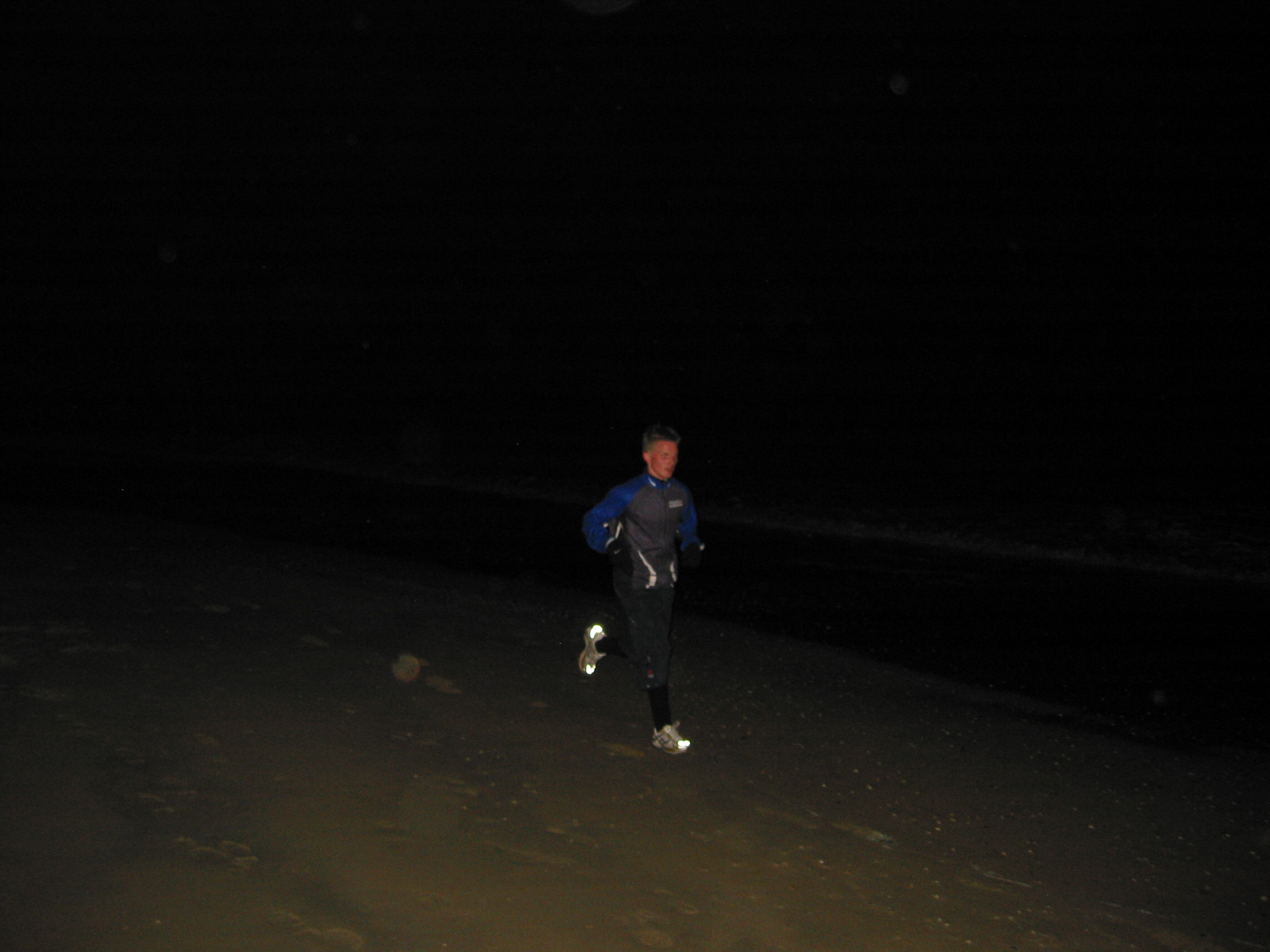 Wim-Bart Knol during the Jan Knippenberg Memorial 2008 (Ultramarathon of 100 English mile). At 55 km (Noordwijk, ZH).